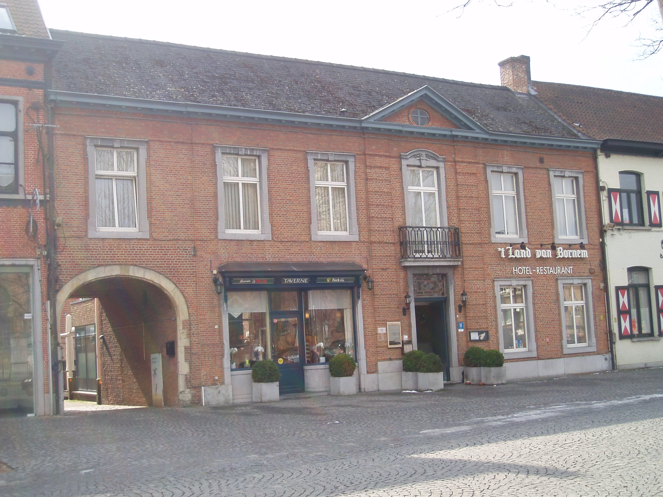 Bornem 't Land van Bornem